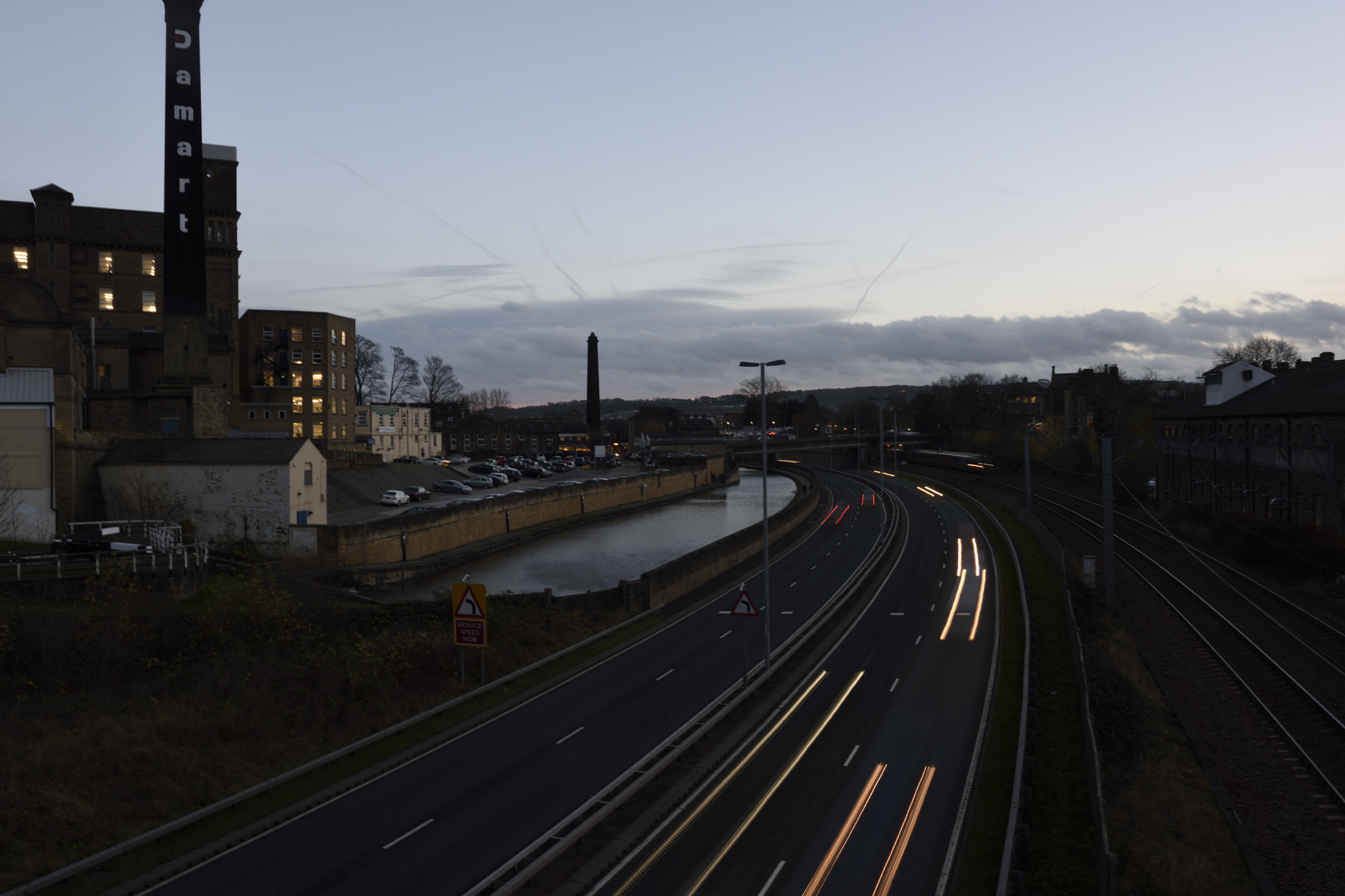 A view looking south in Bingley with the Leeds & Liverpool Canal on the left, the A650 trunk road in the middle and the Airedale Line on the right. The canal was moved to the left in 1992 to allow the new road to be built.